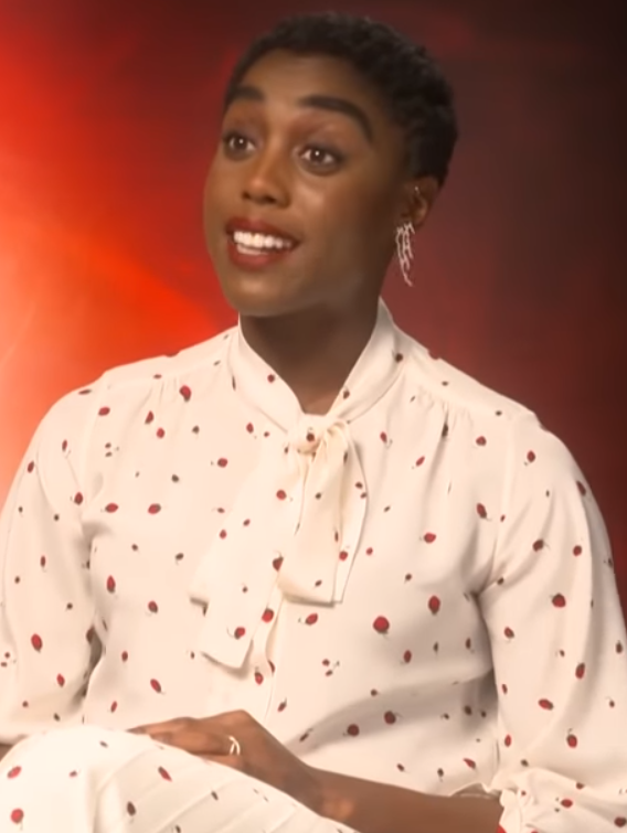 Brie Larson, Gemma Chan, and Lashana Lynch reveal all about their ideal Marvel dinner dates, funniest on set moments and working with Samuel L Jackson.